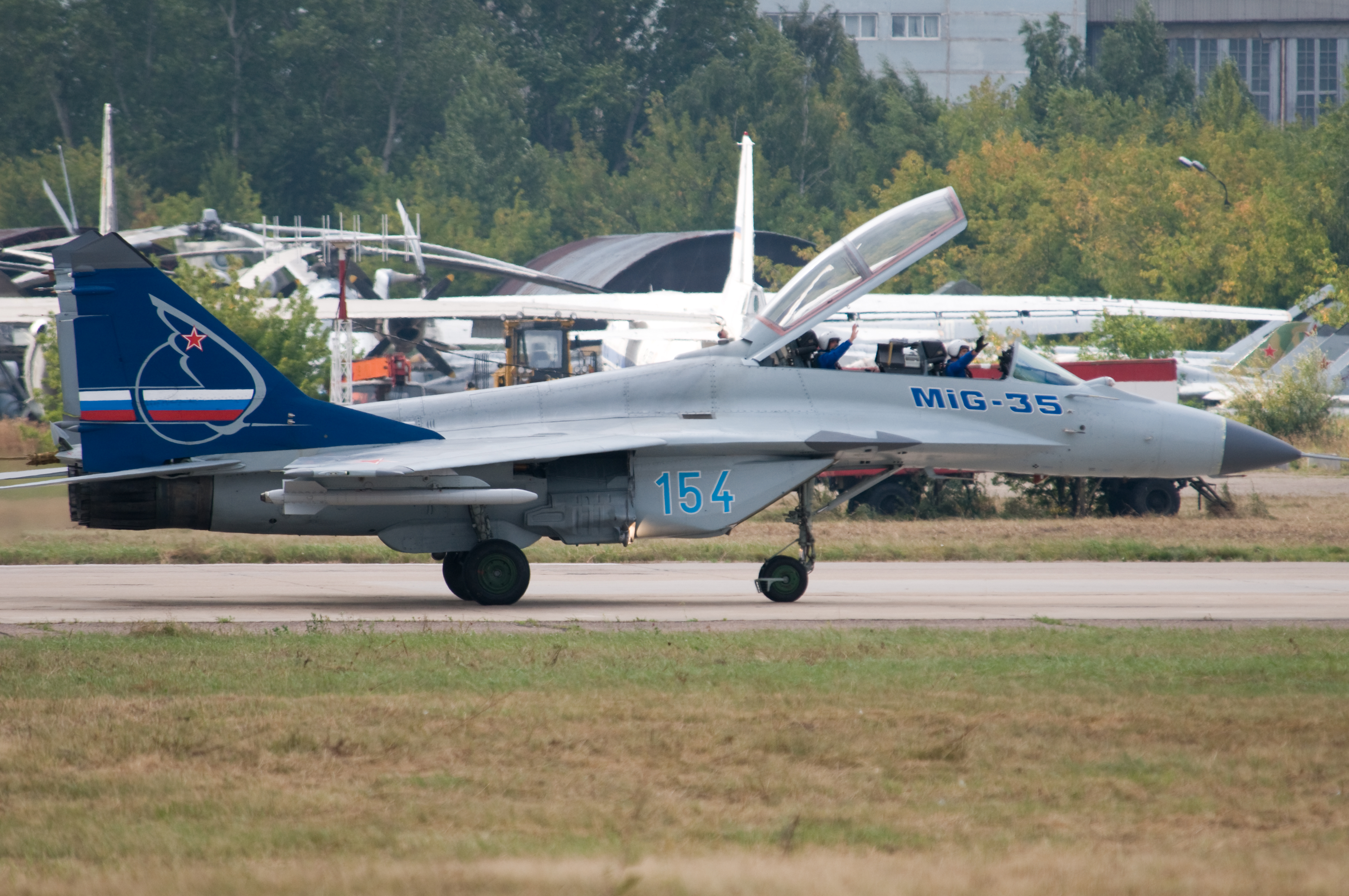 A MiG-35 and crew at the MAKS Airshow 2009.